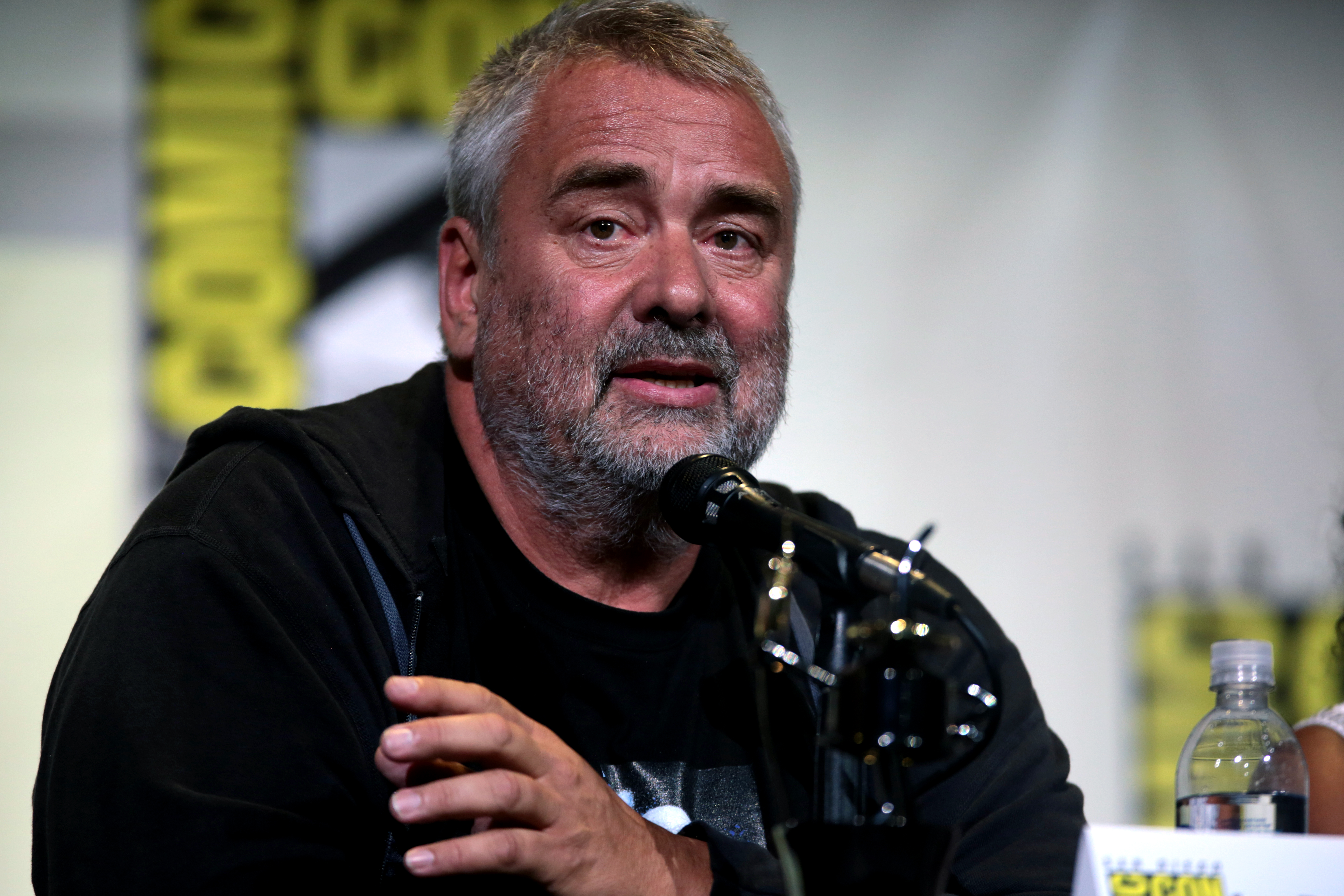 Luc Besson speaking at the 2016 San Diego Comic Con International, for "Valerian and the City of a Thousand Planets", at the San Diego Convention Center in San Diego, California.